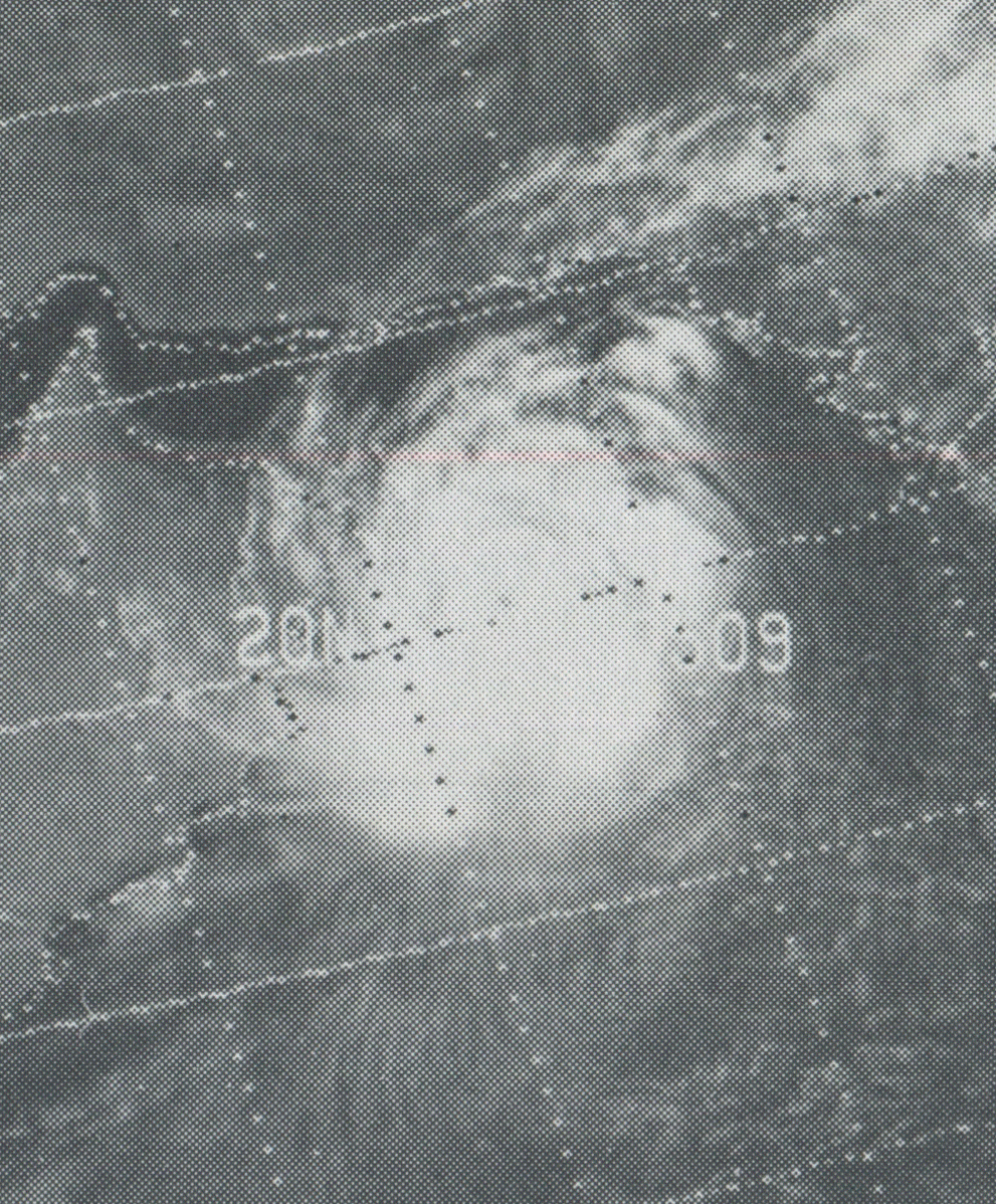 This weather satellite image of an Arabian Sea hurricane-force tropical cyclone was taken on June 12, 1977